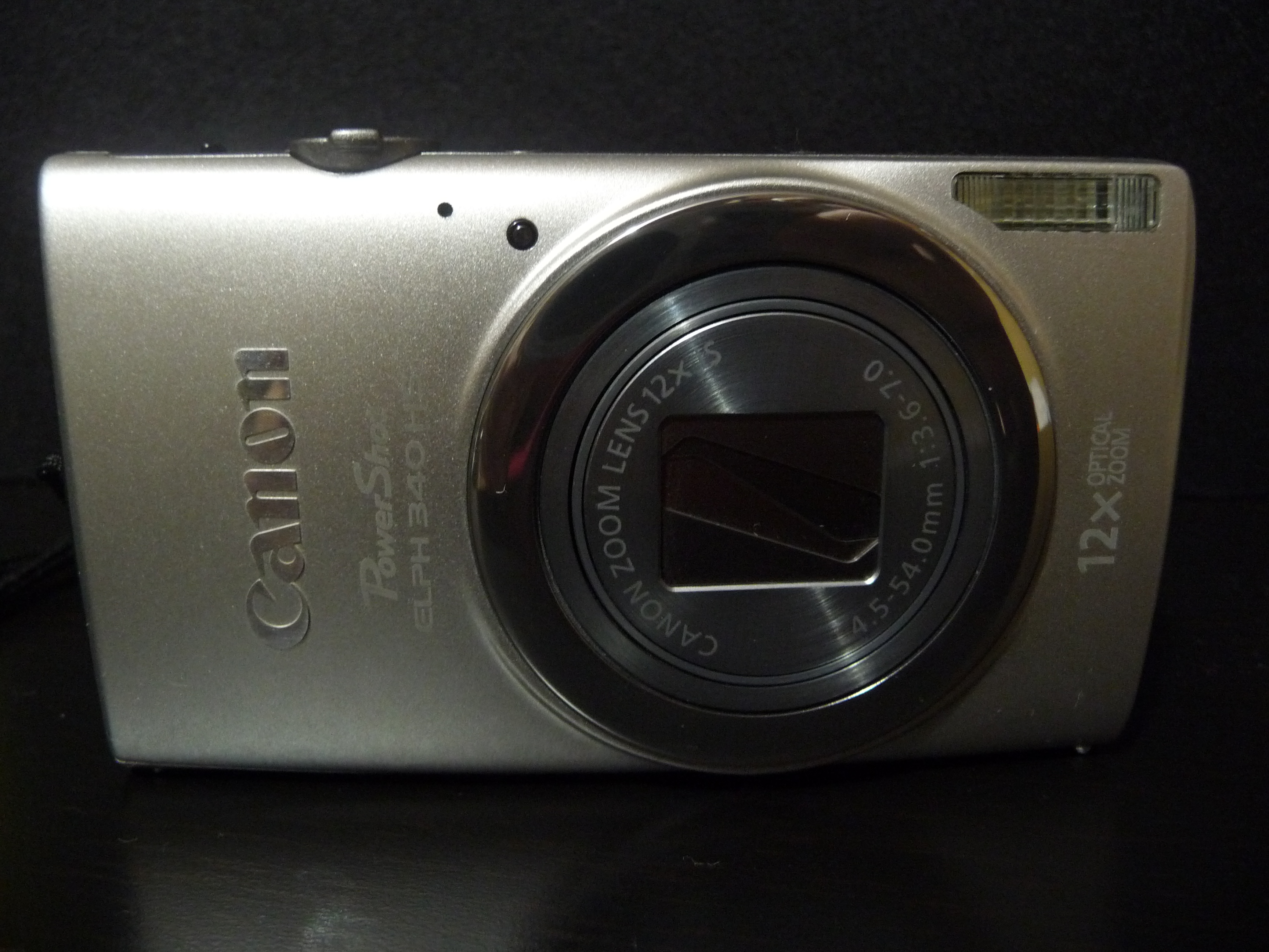 The Canon PowerShot ELPH 340 HS (in the US)/Canon IXY 630 (in Japan) in silver, with its lens retracted.